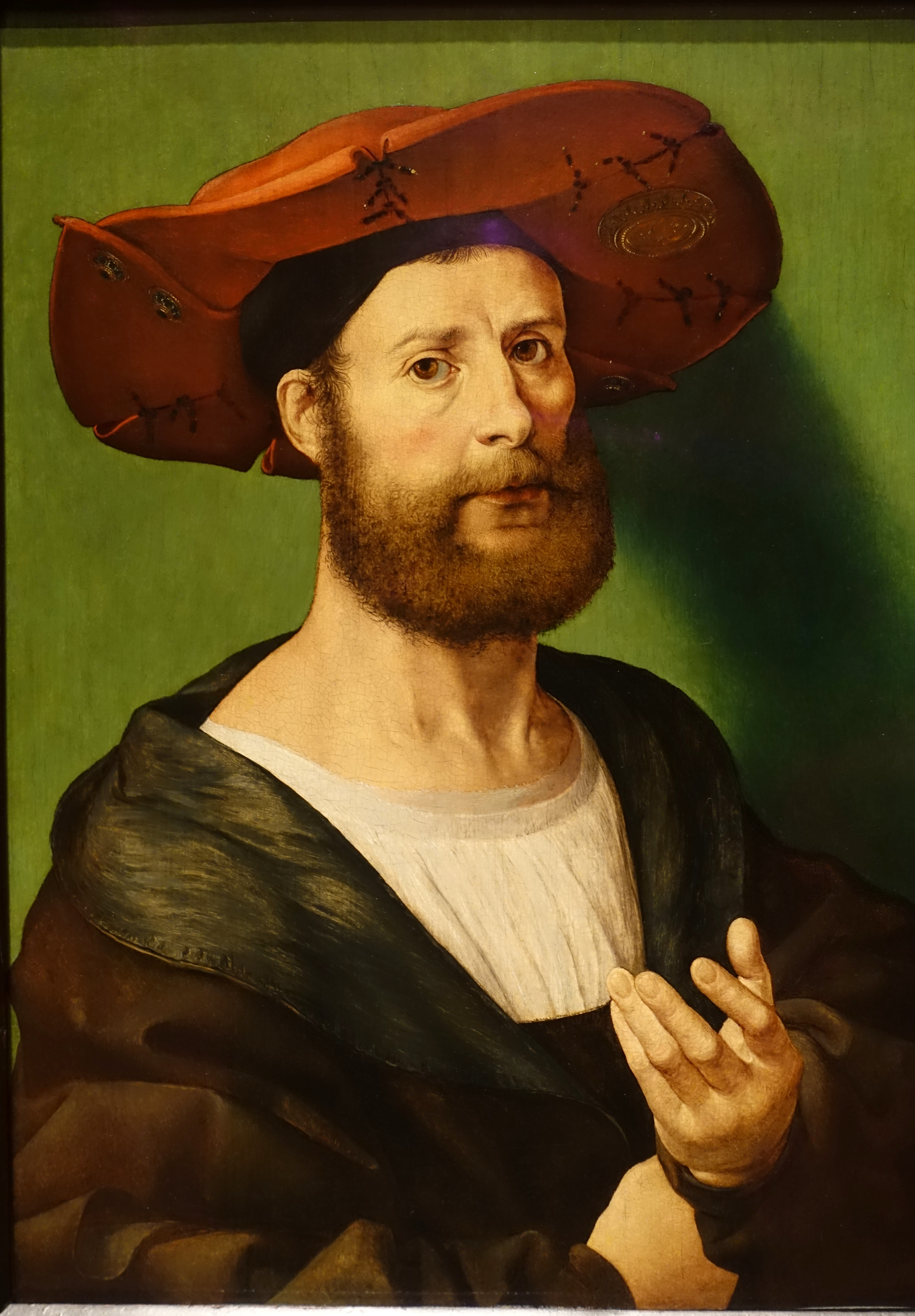 Exhibit in the Currier Museum of Art - Manchester, New Hampshire, USA.